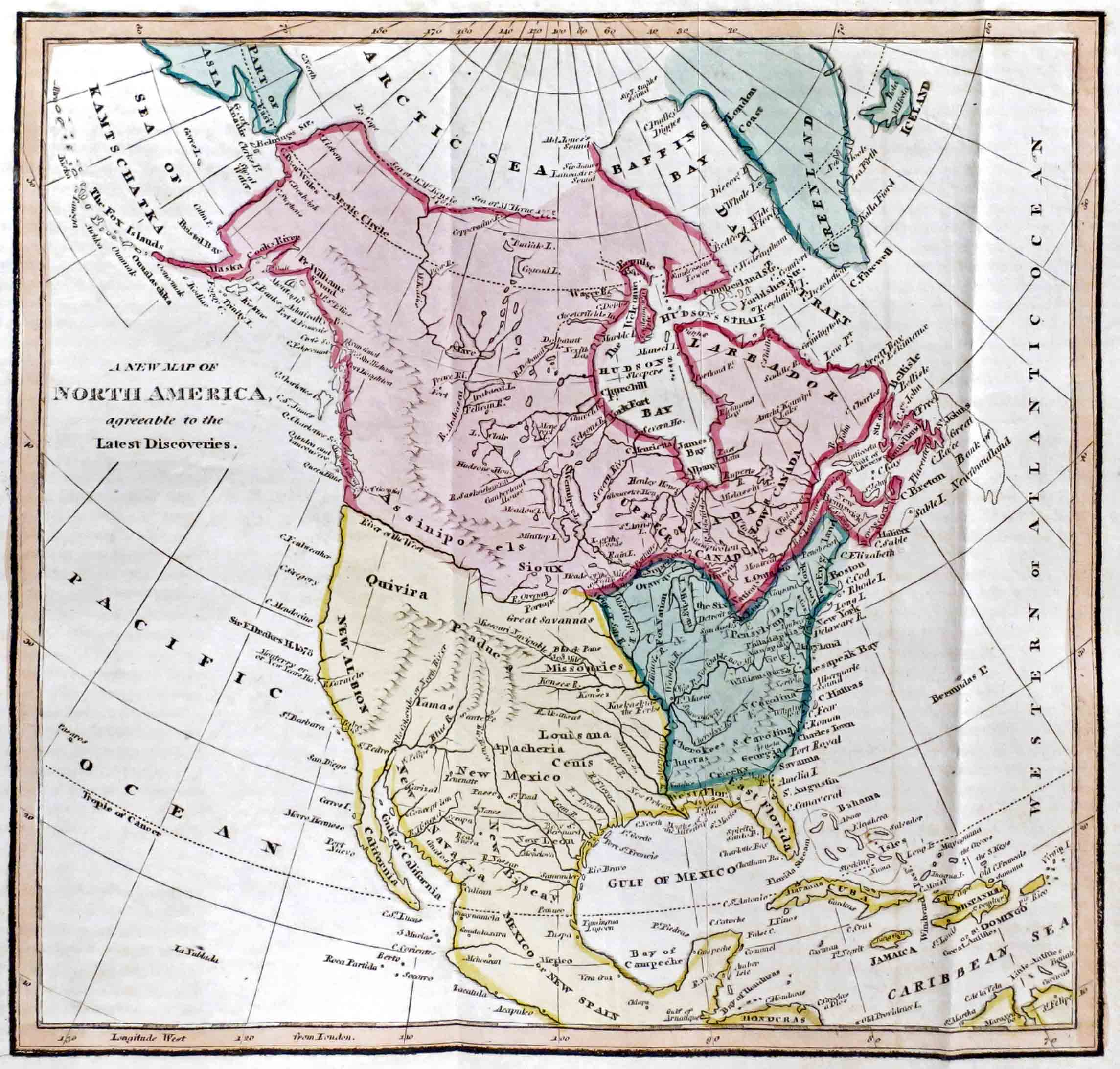 A new map of North America, agreeable to the latest discoveries i.e. political map of North America from the 1817 edition of a 1777 book entitled The History of America : including the history of Virginia to the year 1688, and New England to the year 1652... edited by William Robertson and printed by Augustus Applegath and Henry Mitton. The map has been hand colored to indicate Spanish possessions in yellow, British ones in pink and the independent United States in blue. The author of the coloring ignored the Louisiana Purchase of 1803, and the Spanish cession of that territory to France in 1802.